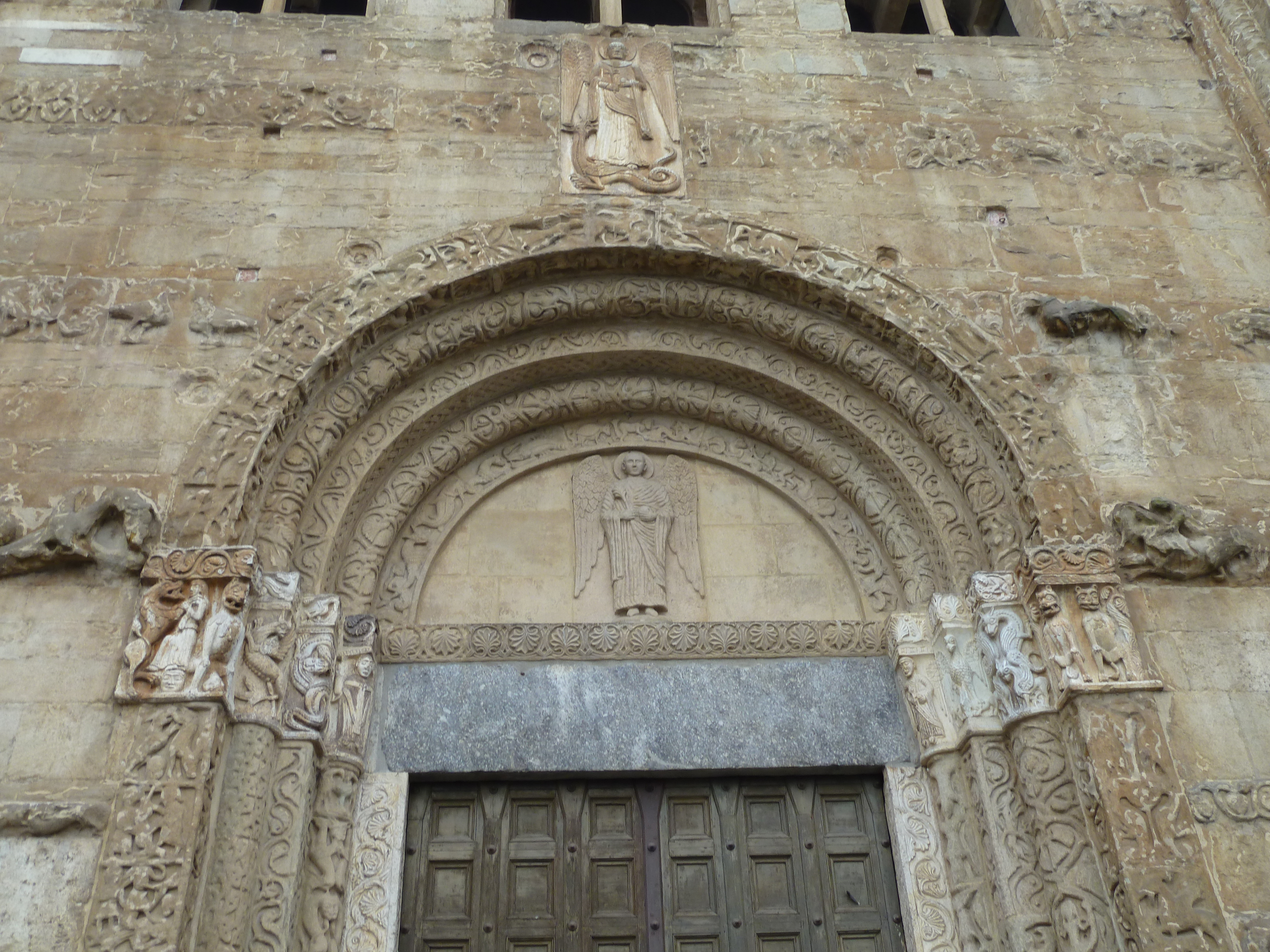 Church of San Michele (Pavia, Lombardy). West facade. Main portal. Tympanum.